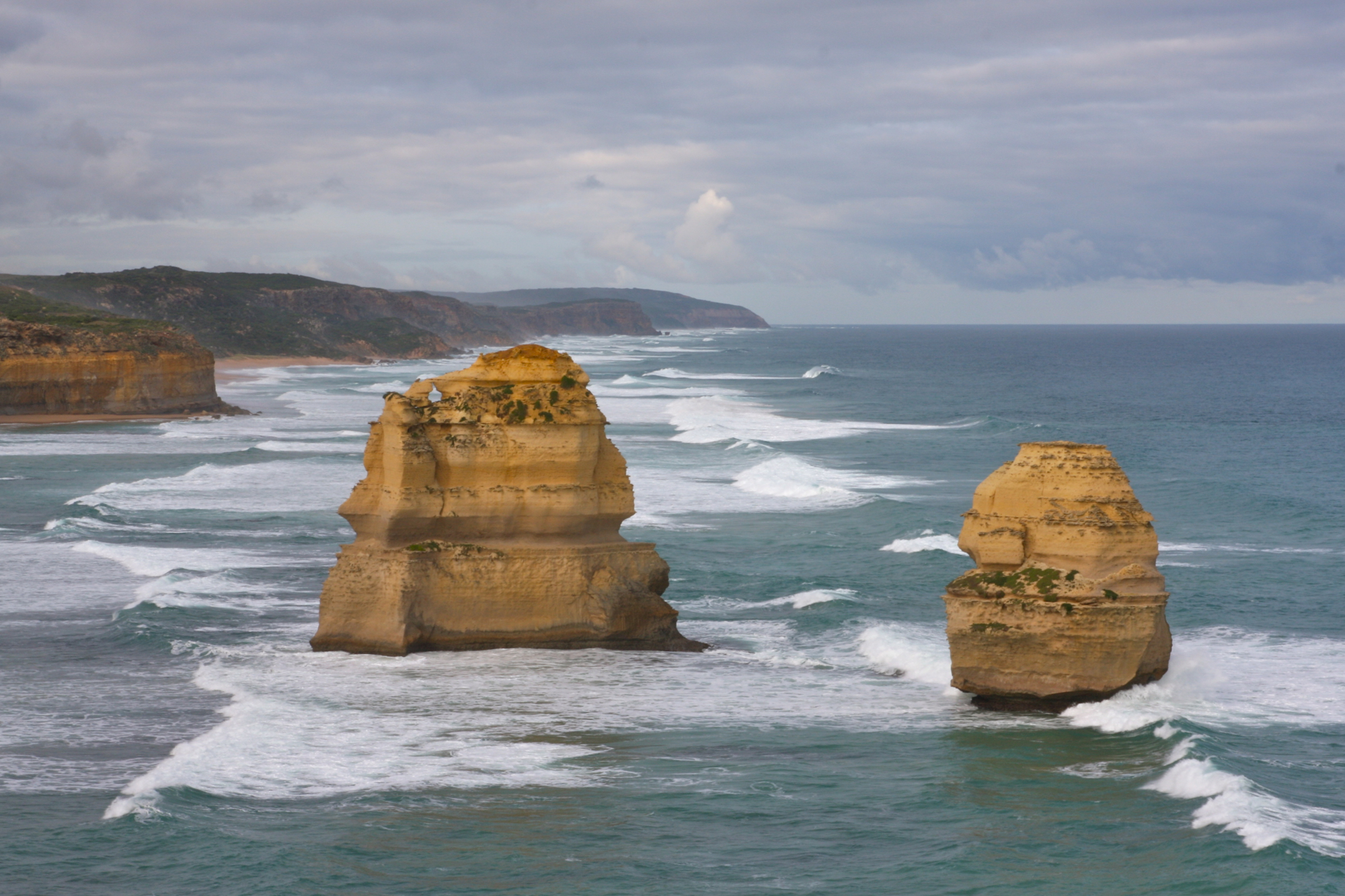 Twelve Apostles, Victoria, Australia.